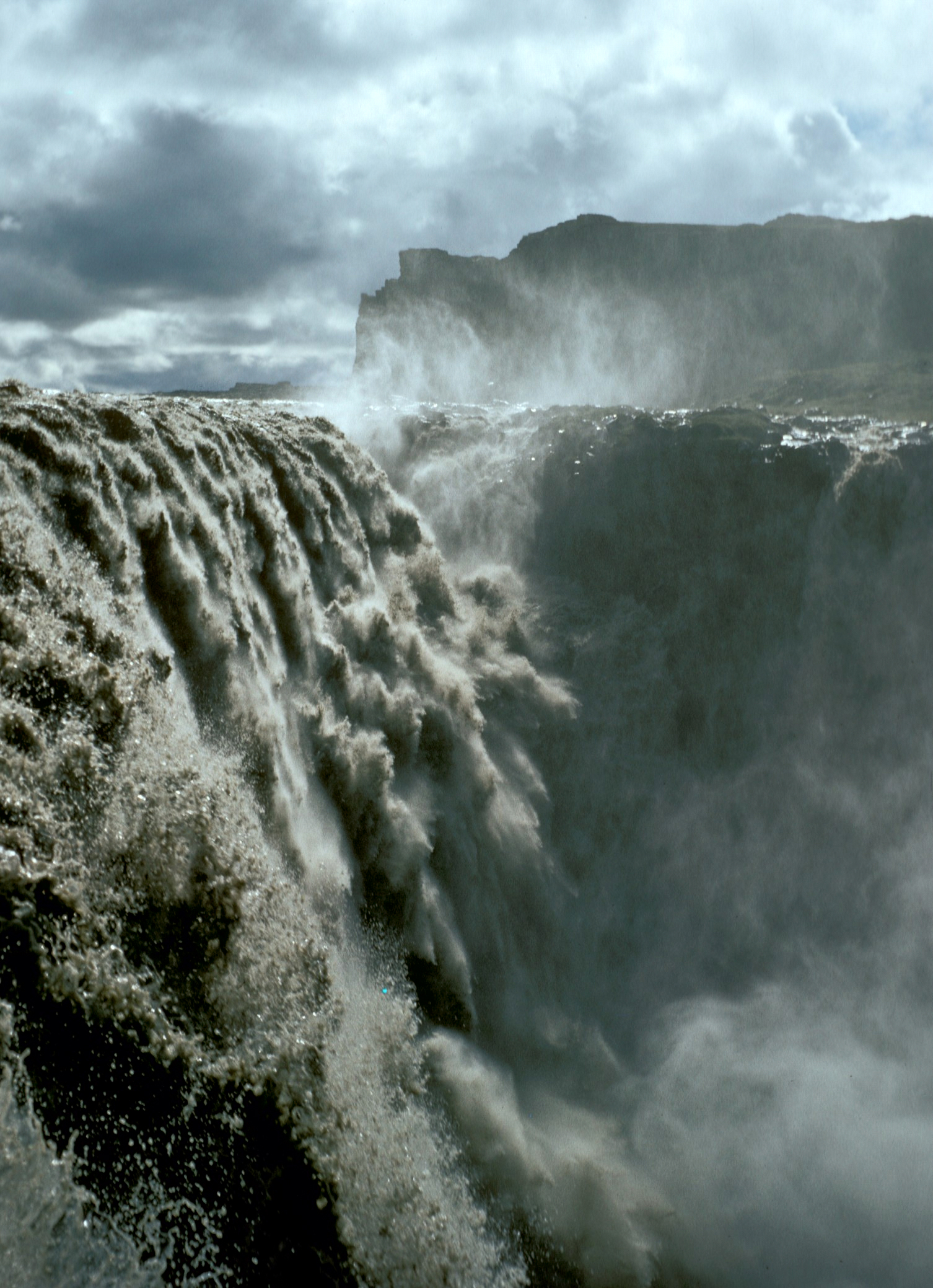 The Dettifoss in Iceland on 31 Jul 1972. Picture taken and uploaded by Roger McLassus.